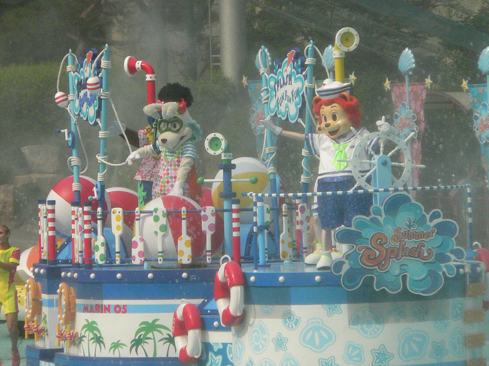 Everland, the biggest theme park of South Korea located in Yongin, Gyeonggi Province.